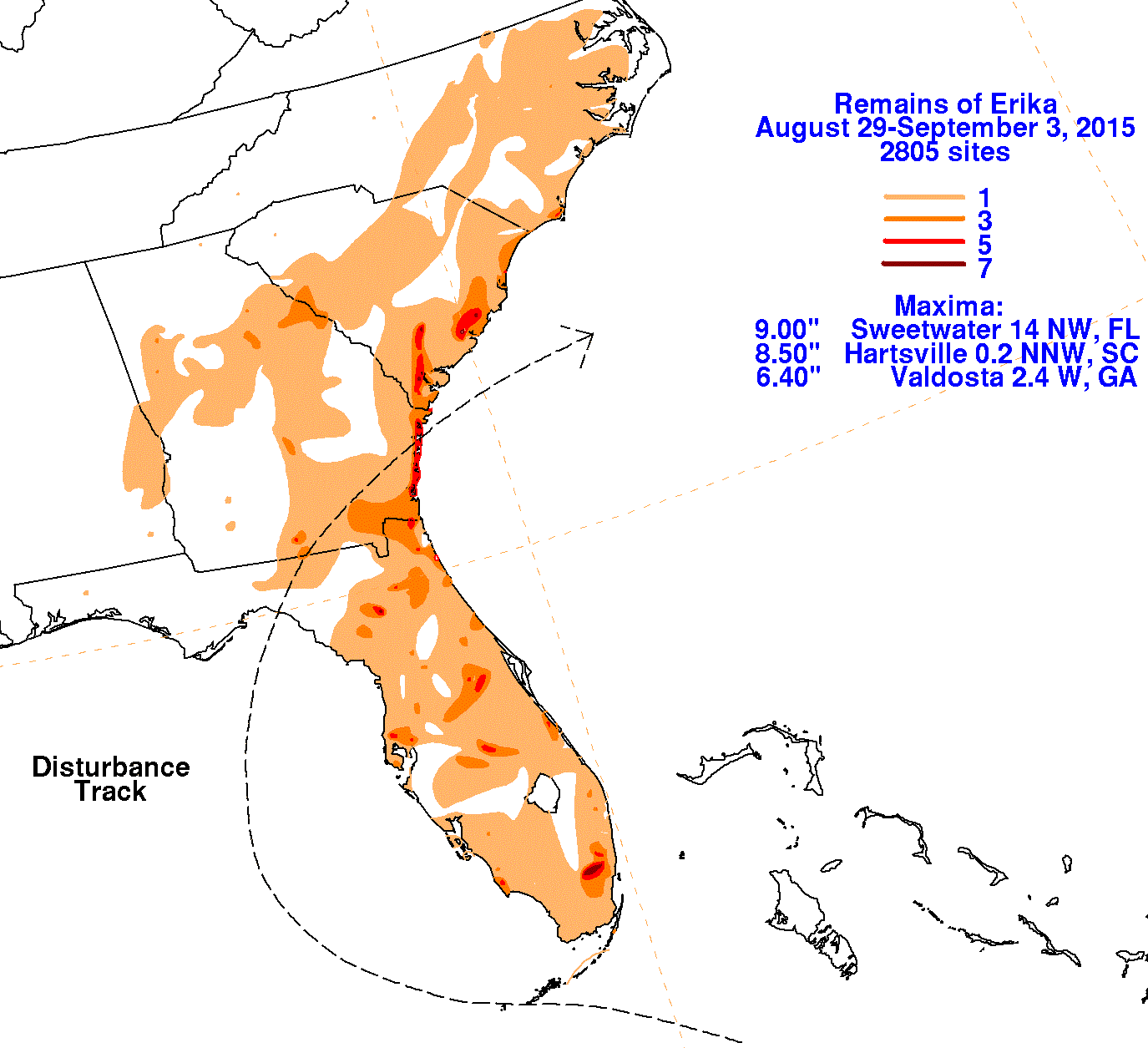 Rainfall map for Tropical Storm Erika (2015) across the Southeastern United States.